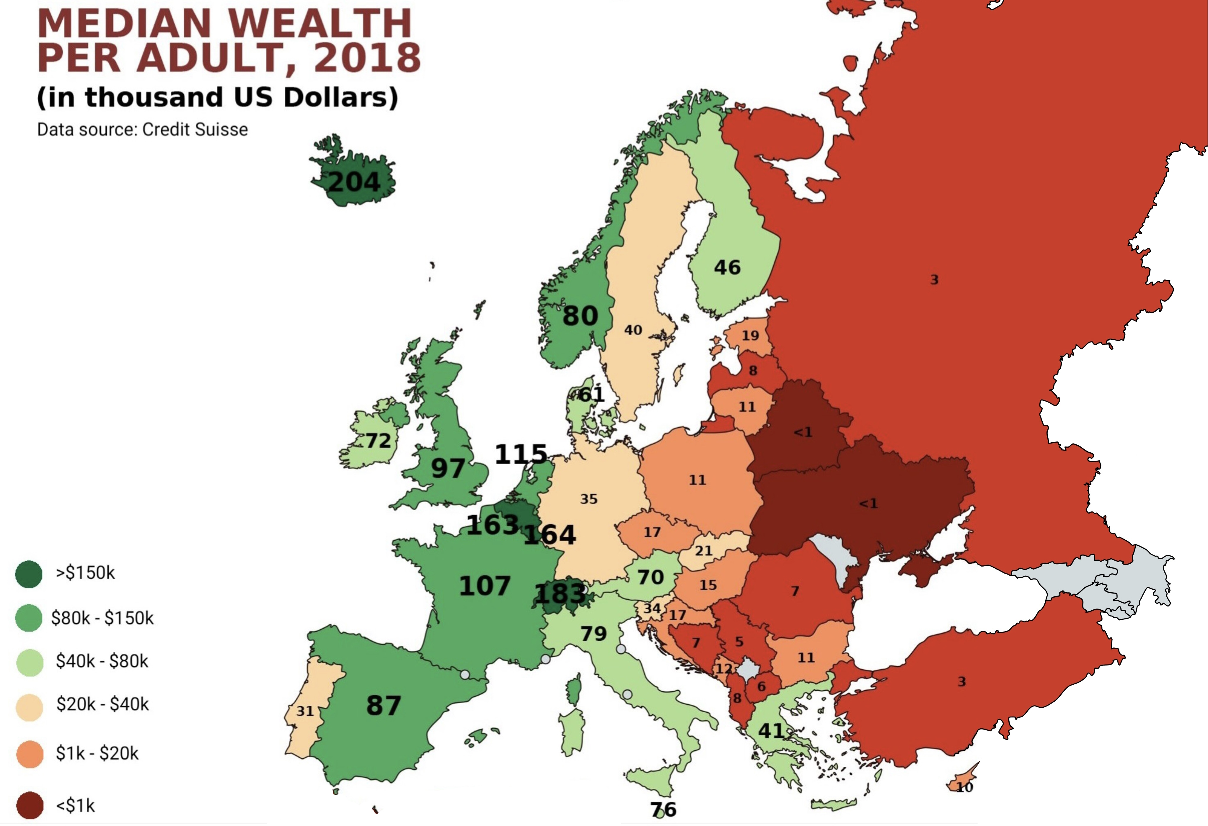 A map showing European countries by median wealth per adult in thousands of US dollars, based on Credit Suisse's Global Wealth Report 2018. See Table 3.1 (page 114) of the databook for mean and median wealth by country.